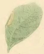 Stainton’s Natural History of the Tineina (1855–1873): Phyllonorycter salicicolella mined leaf of Salix caprea